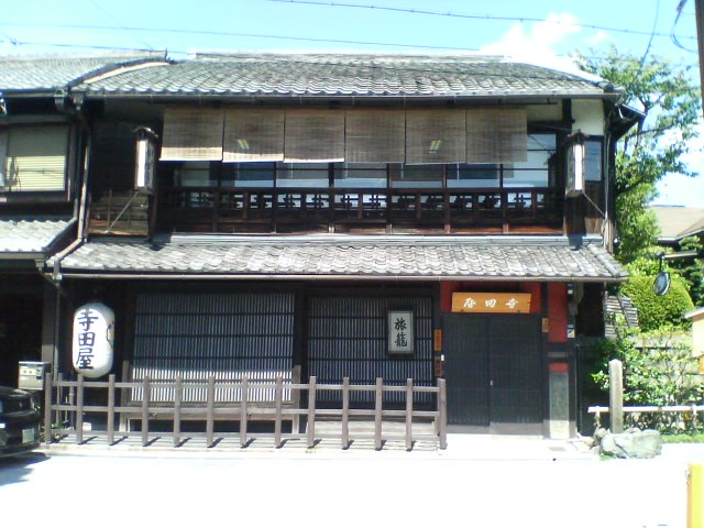 Teradaya Inn, where Sakamoto Ryōma attacked by Fushimi Bugyo in 1866.